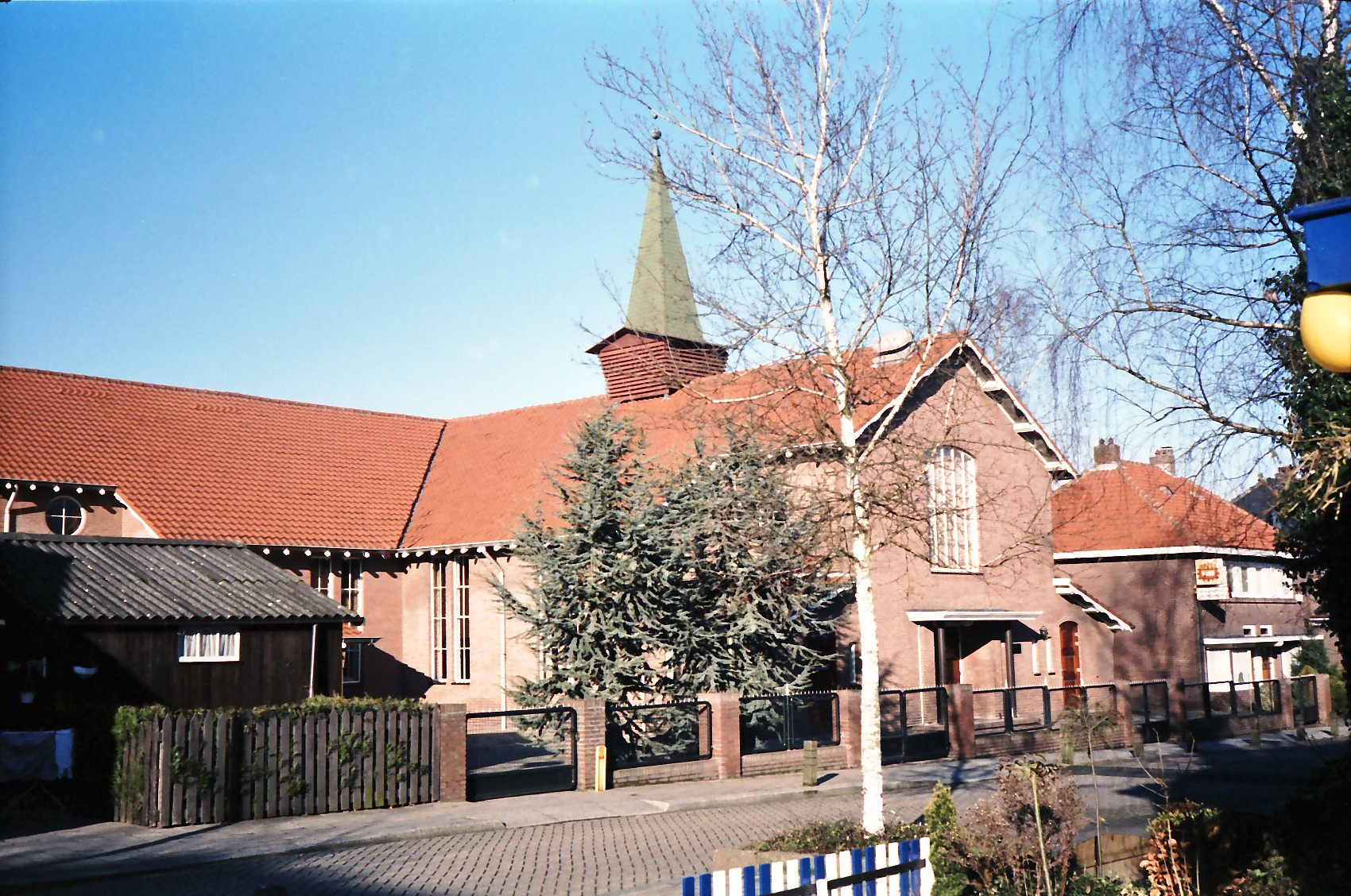 kerkgebouw GGiNbv Fluiterstraat Veenendaal